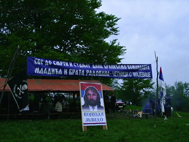 A chetnik meeting at Ravna Gora hill in Serbia, commemorating a WWII uprising